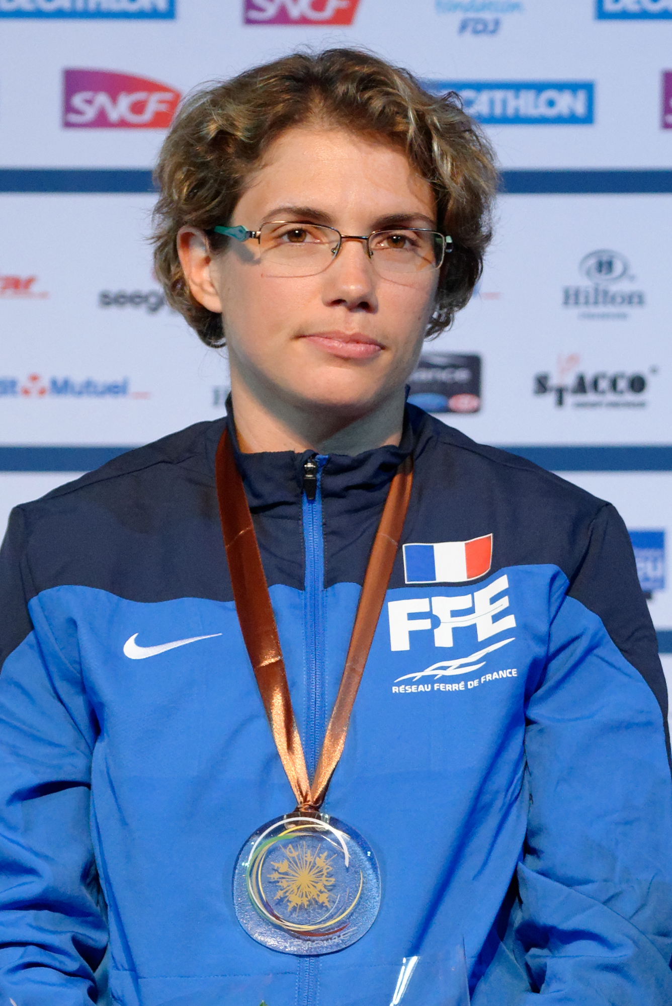 France's Gaëlle Gebet at the award ceremony of the women's team foil event at the European Fencing Championships at Rhénus Sport in Strasbourg on 14 June 2014.